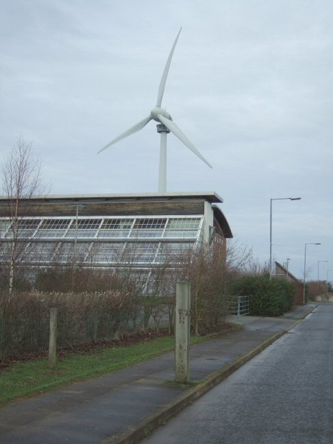 Photo of the Ecocentre at Swaffham, Norfolk